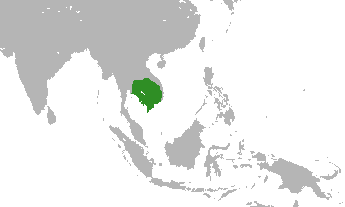 A map showing the location of Chen-La ca. 600 A.D.